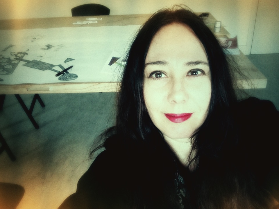 This is a photo of Danielle de Picciotto